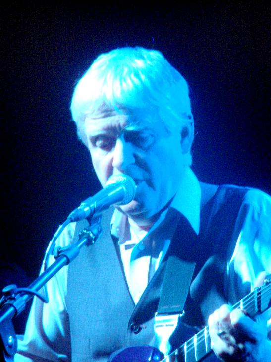 John Lees, guitarist, on stage with John Lees' Barclay James Harvest at the Holmfirth Picturedrome, 25th October, 2009.